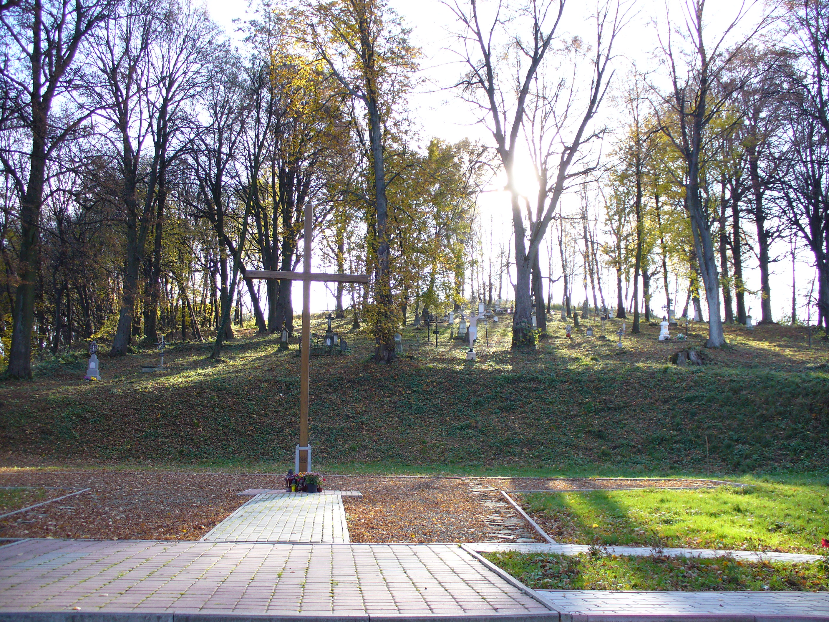 Besko